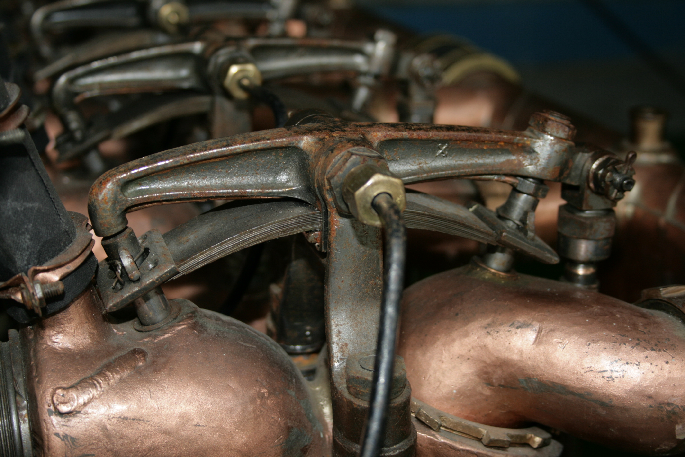 Rocker arm (Austro Daimler aircraft engine).